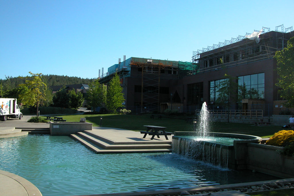 University of British Columbia - Okanagan Campus